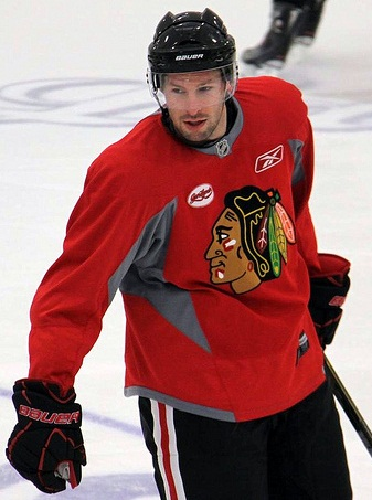 Troy Brouwer at a Chicago Blackhawks practice